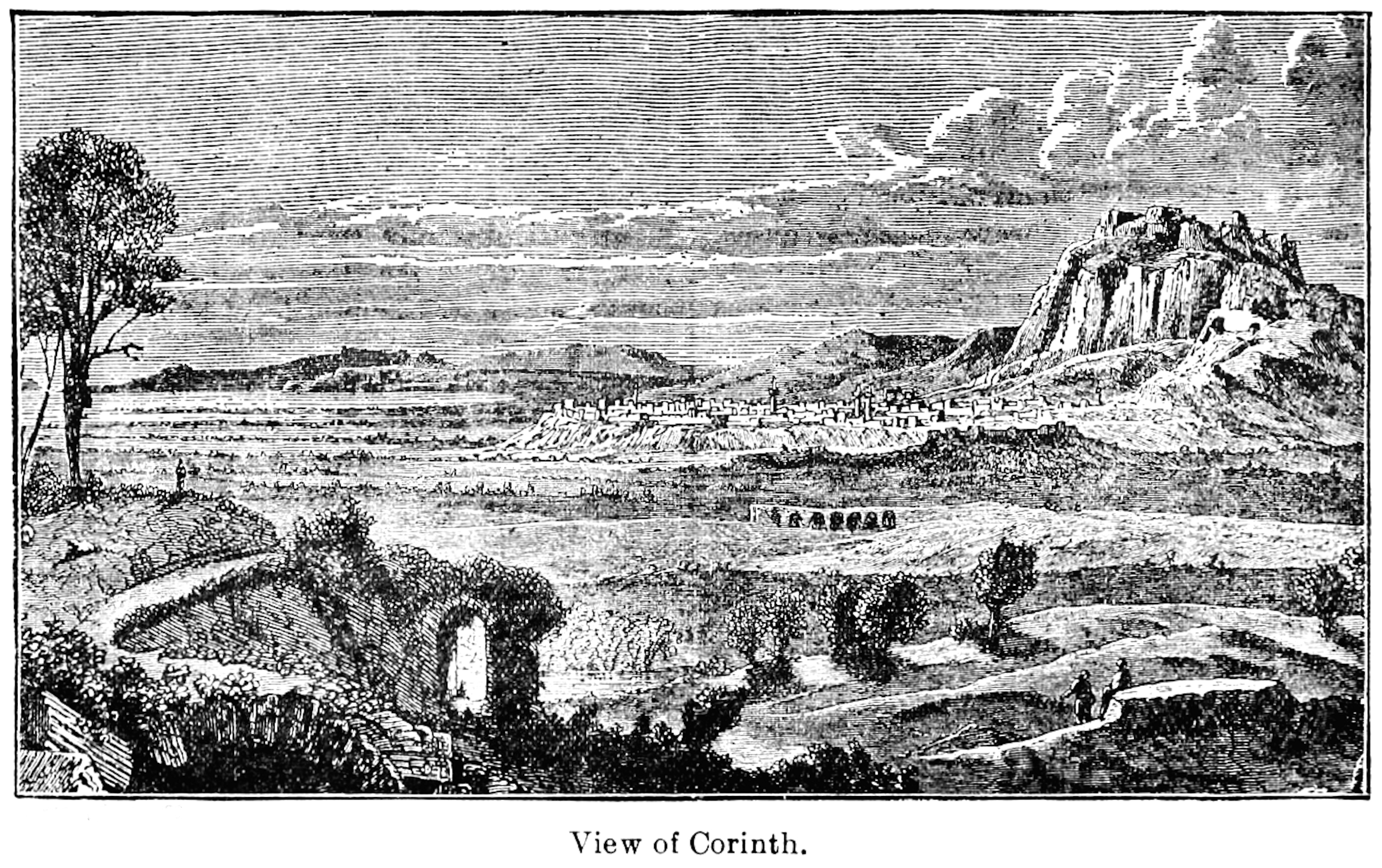 View of Corinth